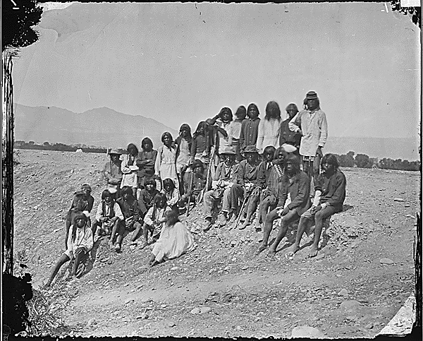 A group of Mohave Native Americans, photographed in 1871 during a geographical survey.